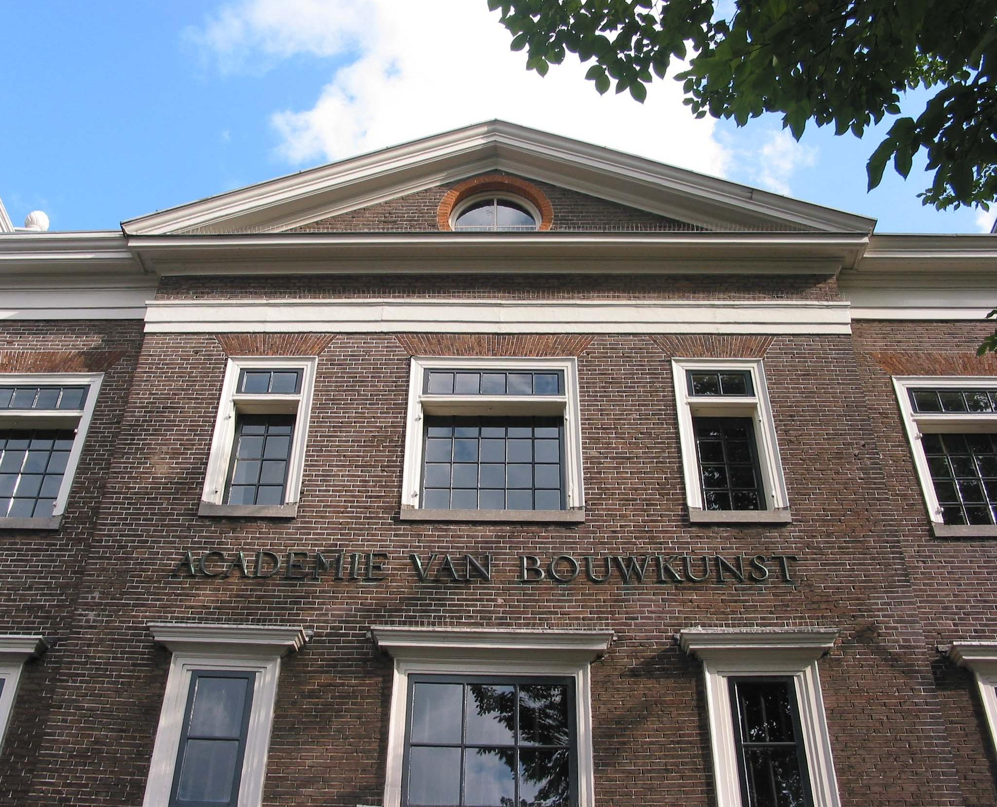 Academie van Bouwkunst Amsterdam, Oudezijds Huiszittenhuis, Waterlooplein 211, Amsterdam.